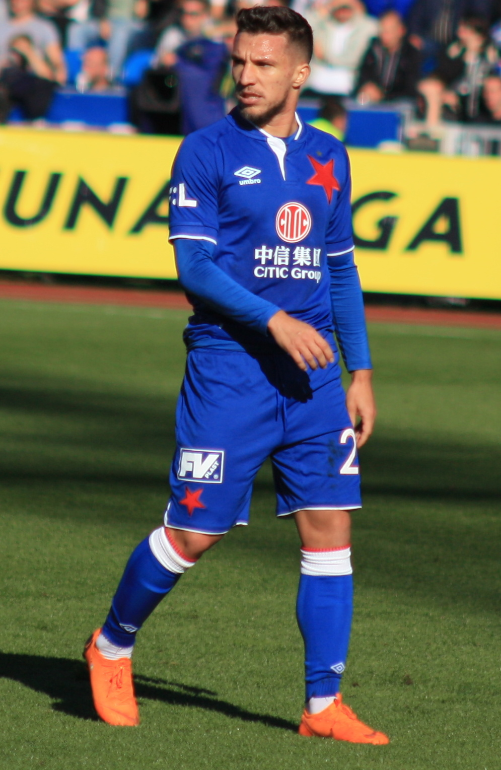 Alexandru Baluta At Czech First League (Fortuna Liga) match FC Baník Ostrava-SK Slavia Praha played on 30. 9. 2018